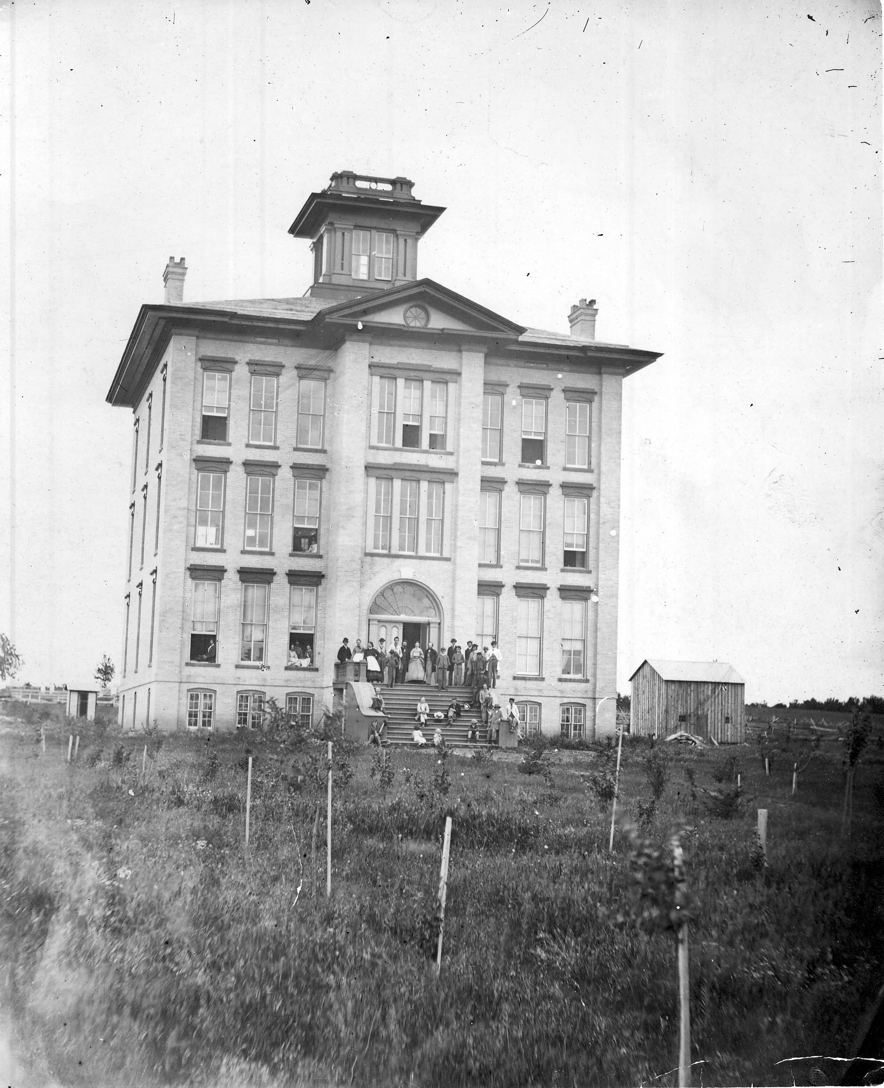 This is a photo of the "Kaffeemuehle" at Northwestern College in Watertown, WI. It was an all-purpose building for the college until it was destroyed in a fire in the 1890s. The photo was taken in 1866, soon after its construction.